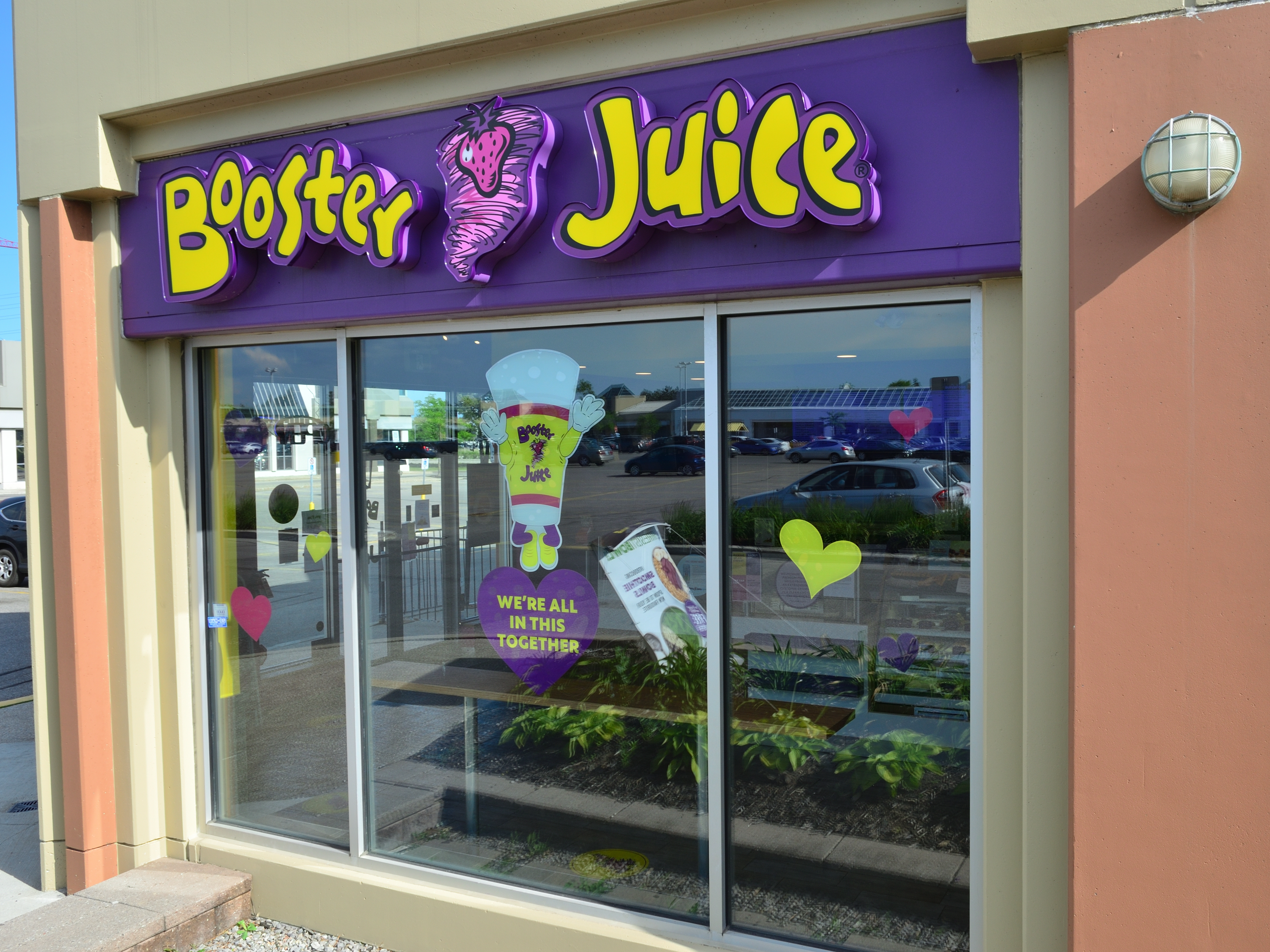 Booster Juice - Address: 8505 Warden Ave, Markham, ON L3R 0Y8